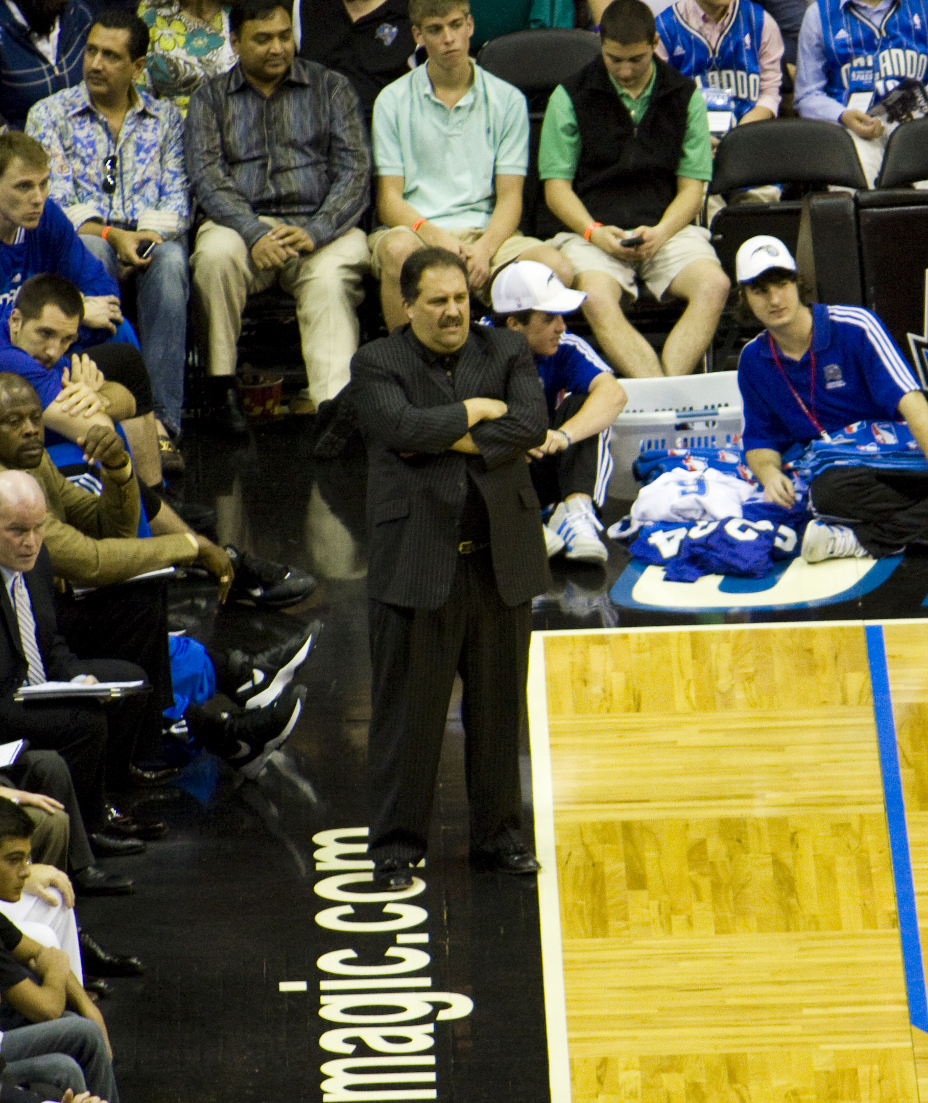 Stan Van Gundy of the Orlando Magic